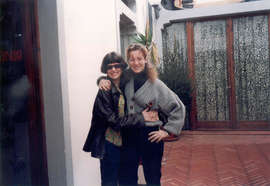 Silvia Salemi (left) and Elena Torre a Radio Babilonia